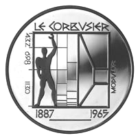 Swiss Commemorative Coin 1987 CHF 5 obverse